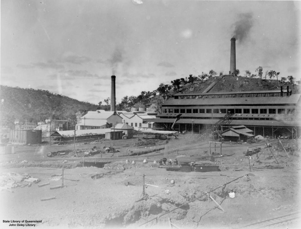 Lead-Copper Smelting Works at Chillagoe, Queensland, ca. 1906. External view of the Chillagoe Smelting Works, around 1906. Large chimneys are smoking in the background, and a steam train can be seen arriving in the foreground.